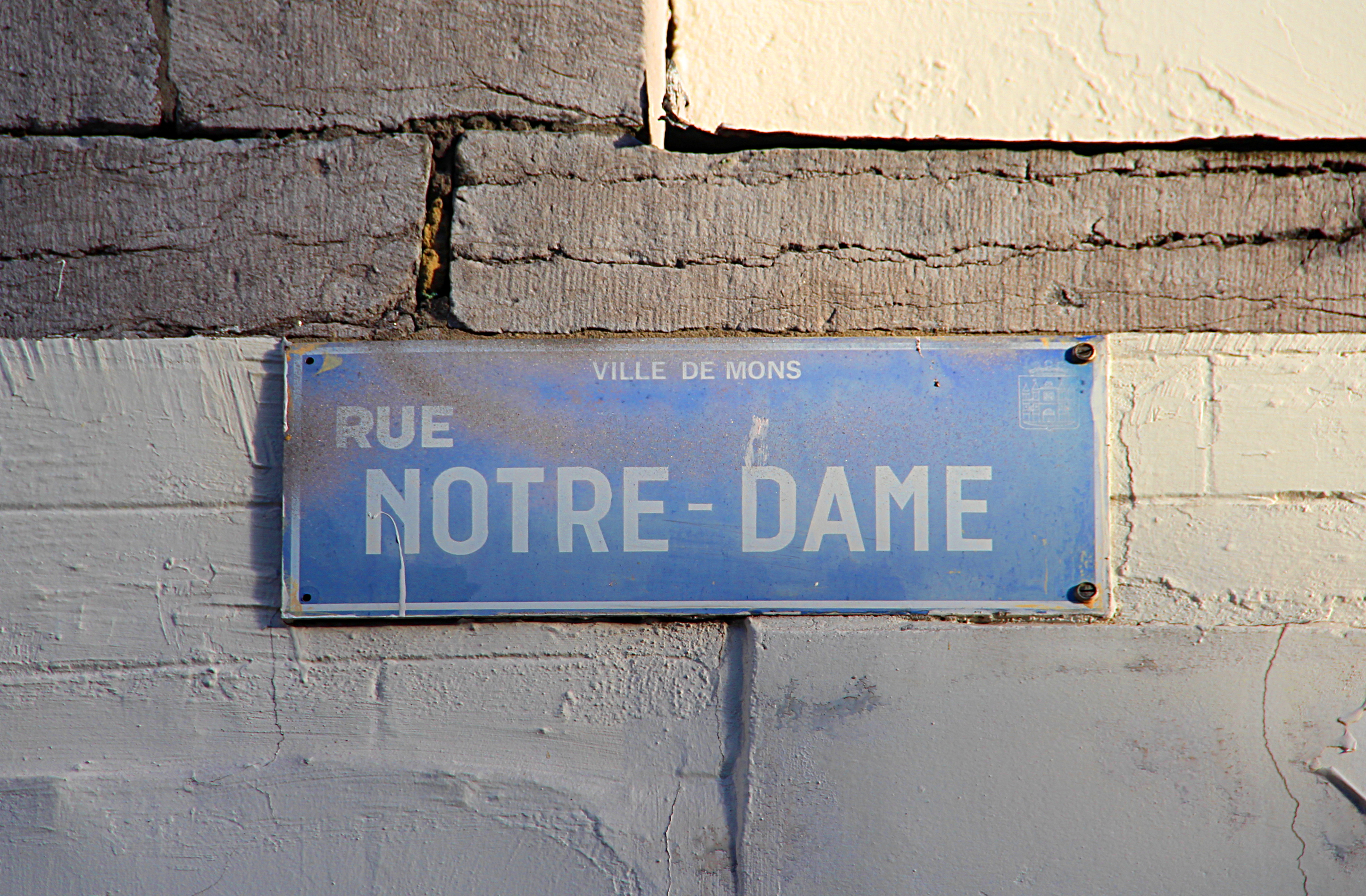 Mons (Belgium), rue Notre-Dame - Enameled street sign.